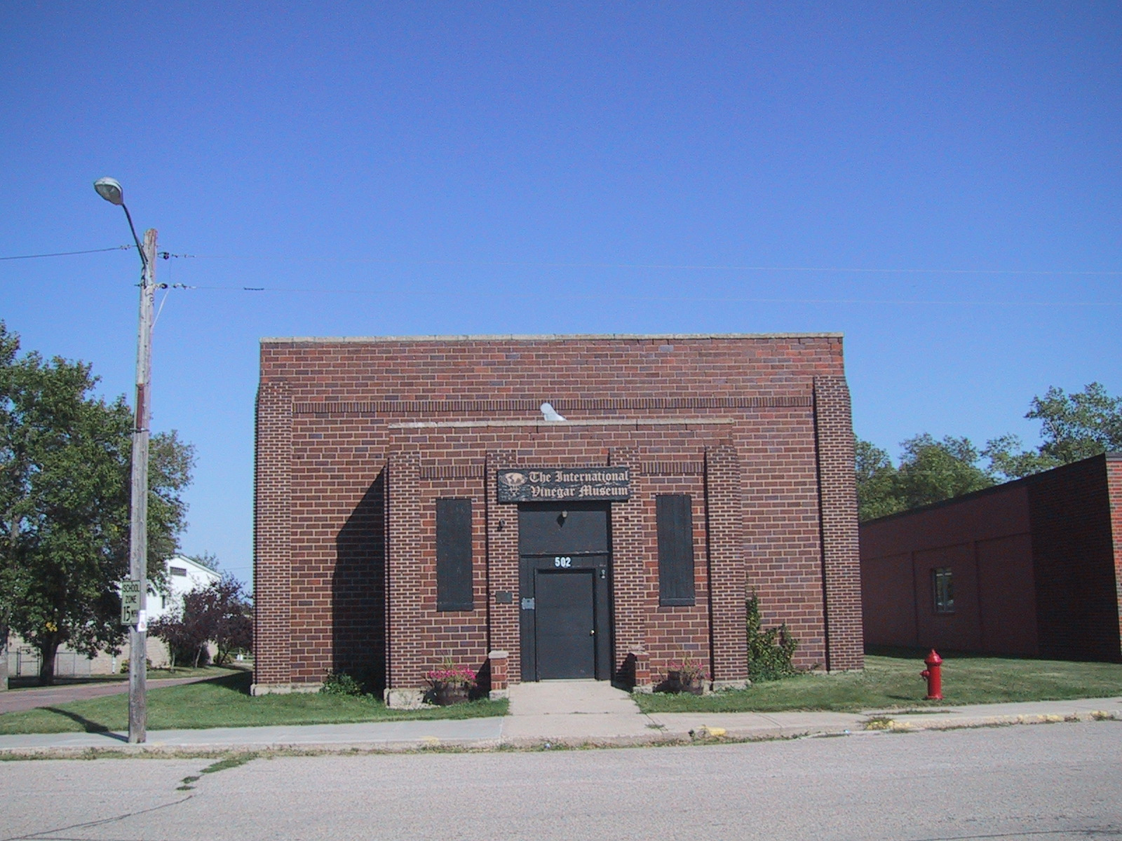 International Vinegar Museum, Roslyn South Dakota USA, summer 2008